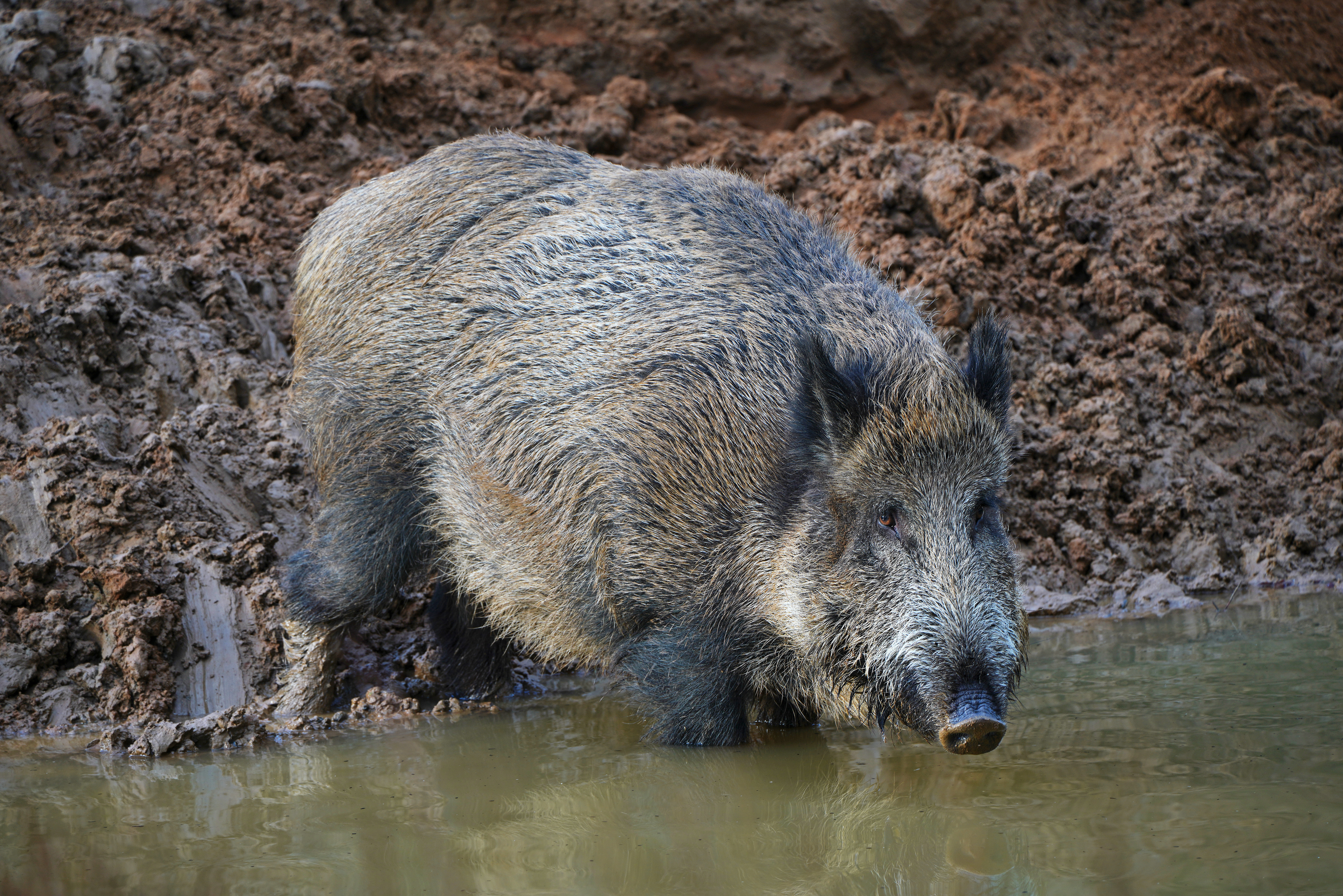 Wild boar in the Zoo, Eberswalde near Berlin (Germany)